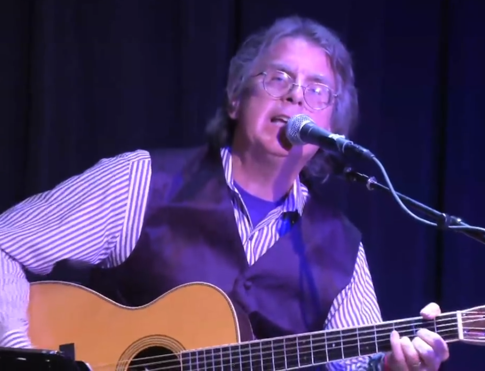 Roger McNamee performing at his solo acoustic show at the Sweetwater Music Hall in Mill Valley, CA on 16 Sept. 2013.